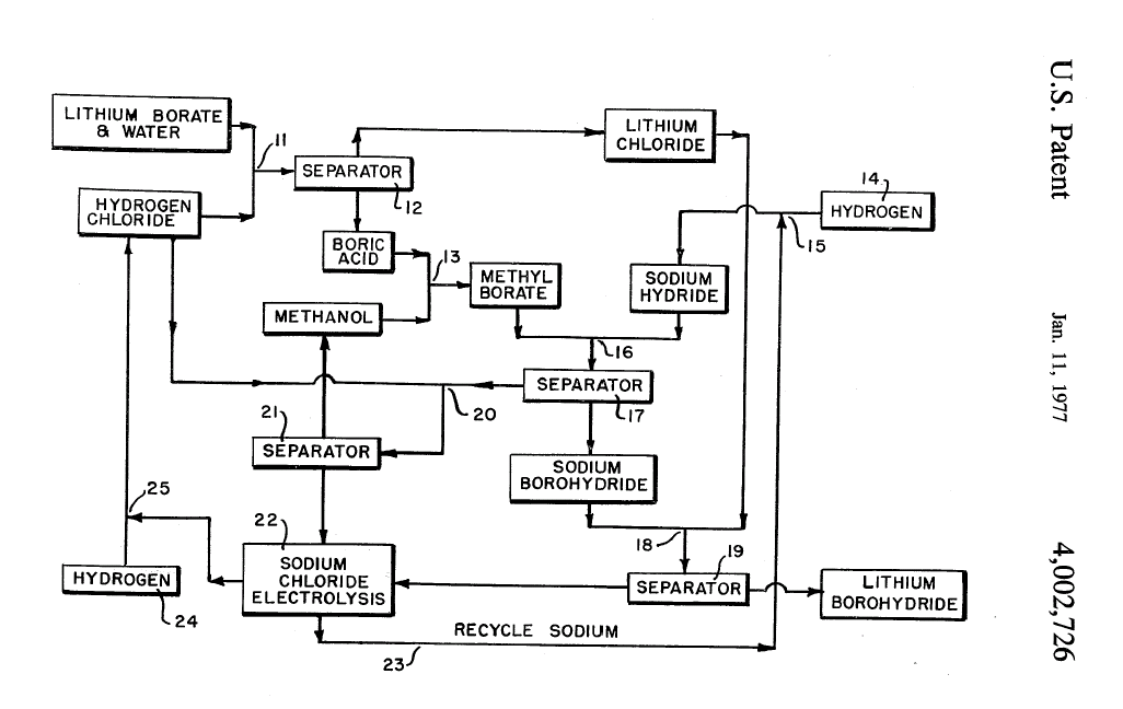 Snapshot of US Patent 4002726